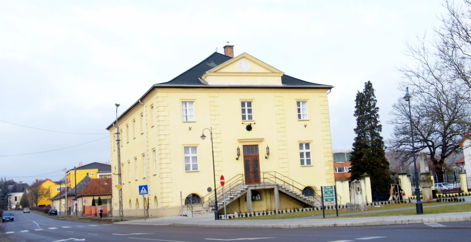 Former District Court, Pétervására. Used before 1966.